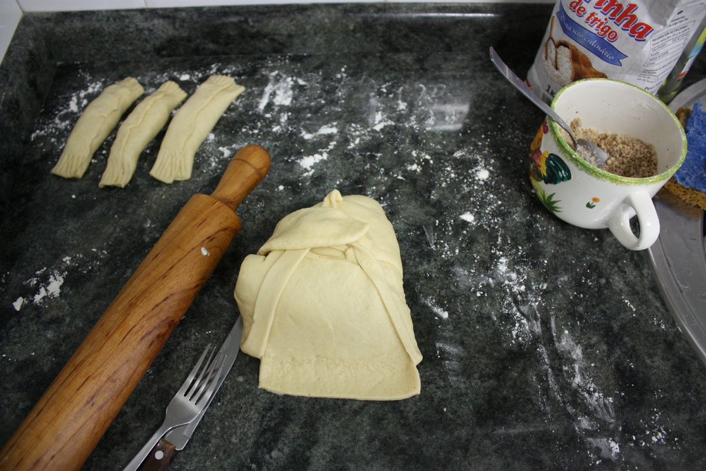 Making of